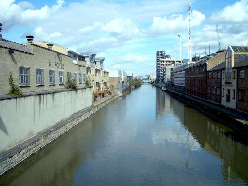 Limehouse Cut, photo by SalimFadhley